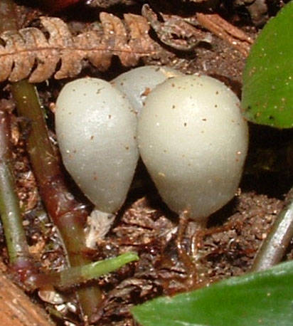 The hallucinogenic mushroom Weraroa novae-zealandia, found in New Zealand